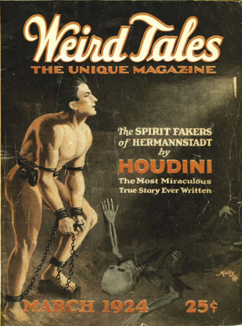 Weird Tales Cover, March 1924. Reproduction of public domain cover.